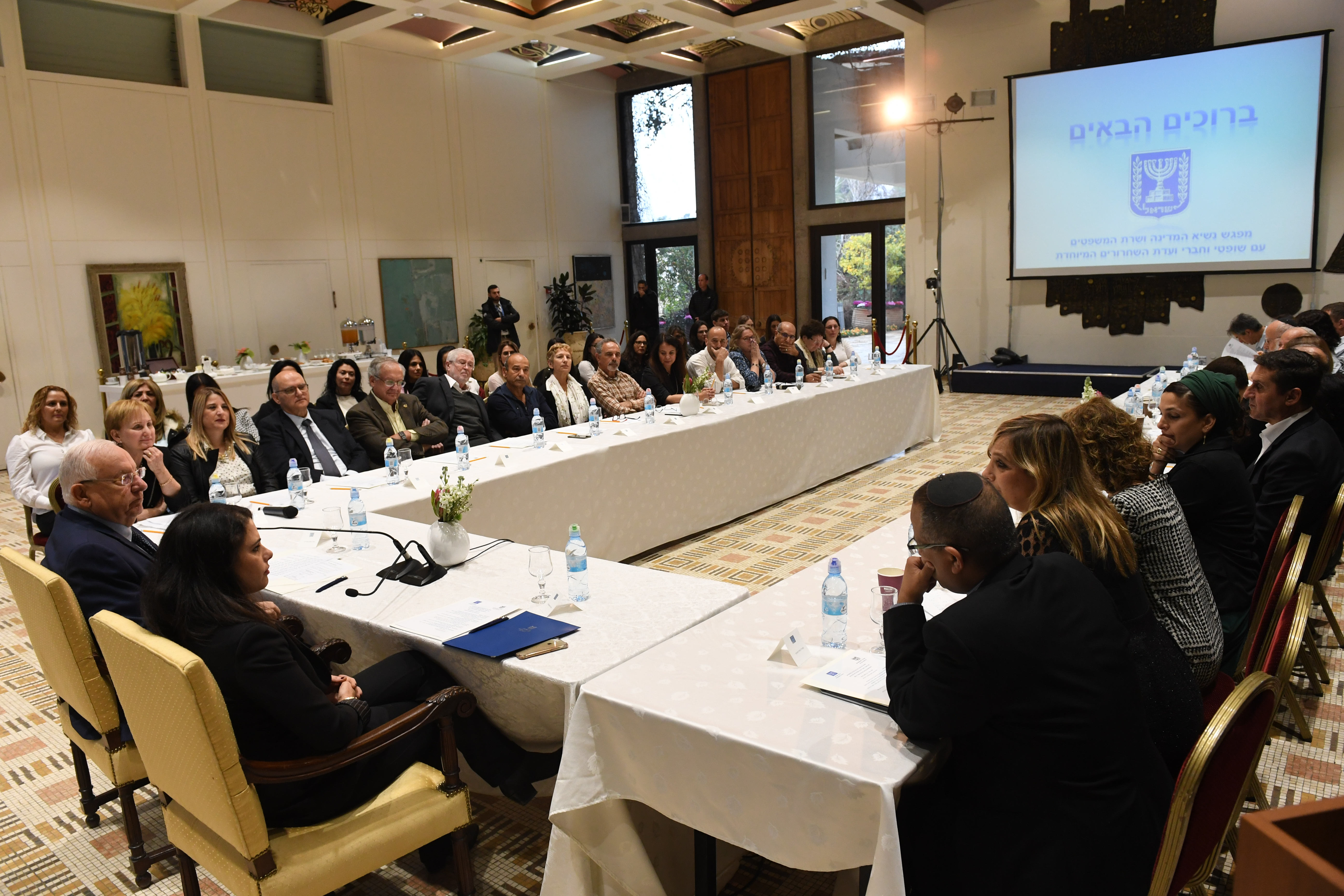 President of Israel, Reuven Rivlin, in a meeting with the Minister of Justice and the Special Parole Board on the subject of life imprisonment. Wednesday, January 17, 2018. Photo credit: Haim zach / GPO. Depicted person: Reuven Rivlin – Israeli politician, 10th President of Israel